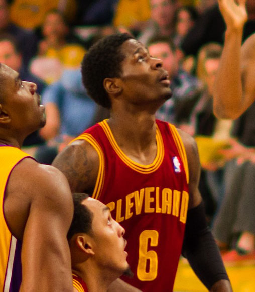 Manny Harris, and a teammate watch a shot along with Ron Artest and Andrew Bynum